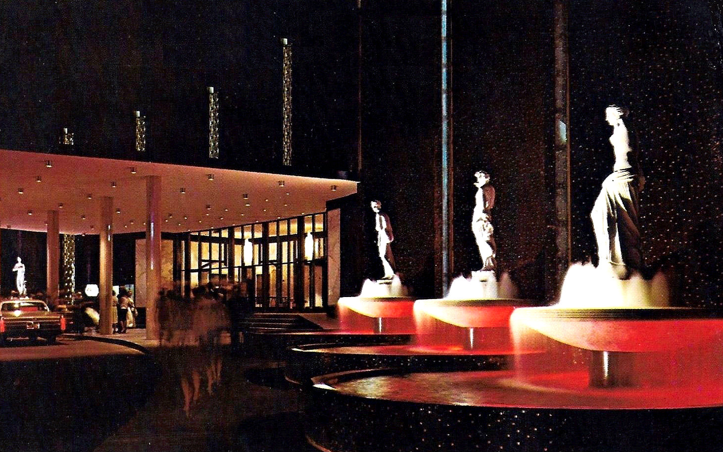 Photo of the fountains at Caesar’s Palace Hotel and Casino, Las Vegas